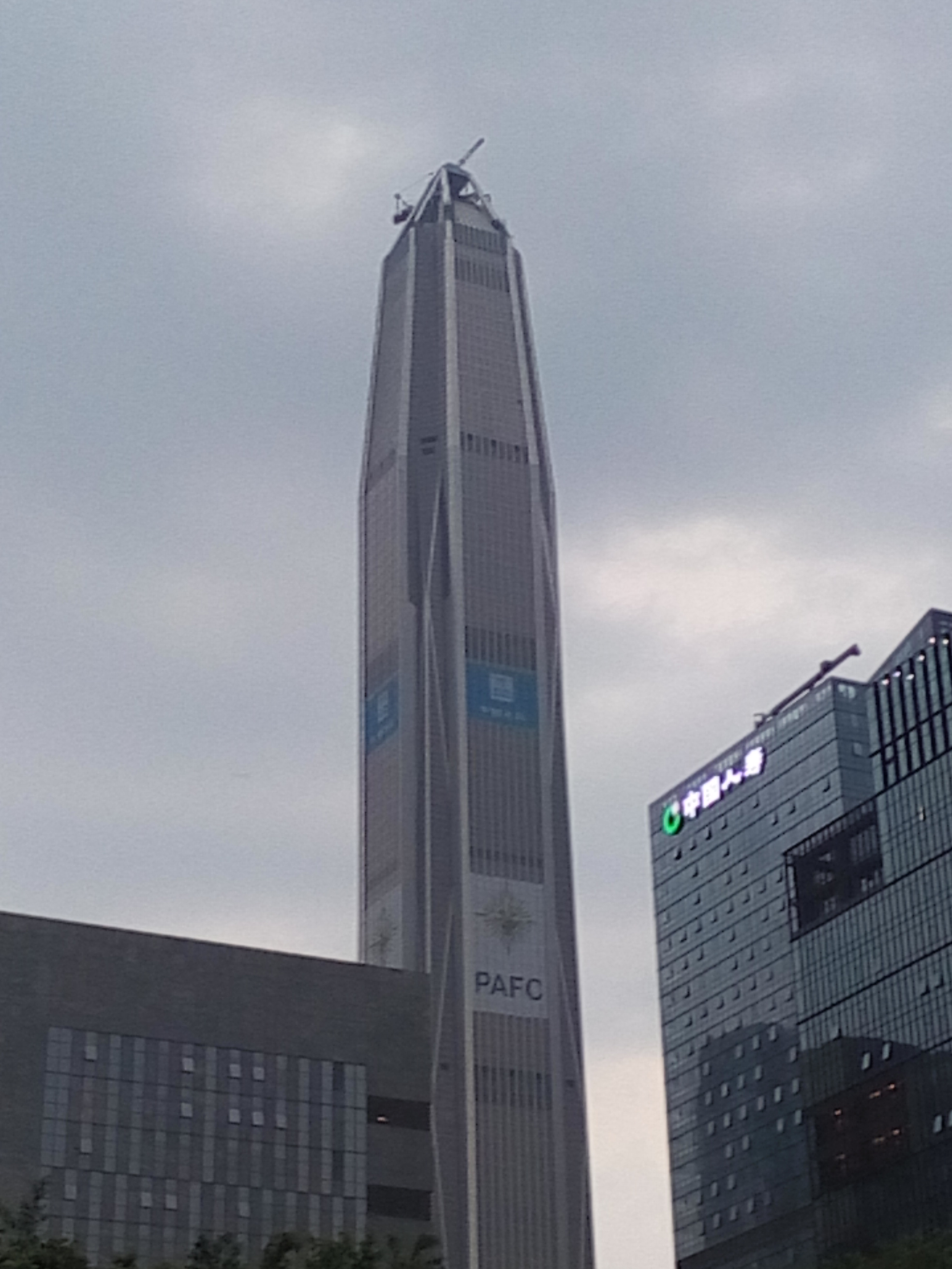 Pingan International Finance Center, Futian District, Shenzhen